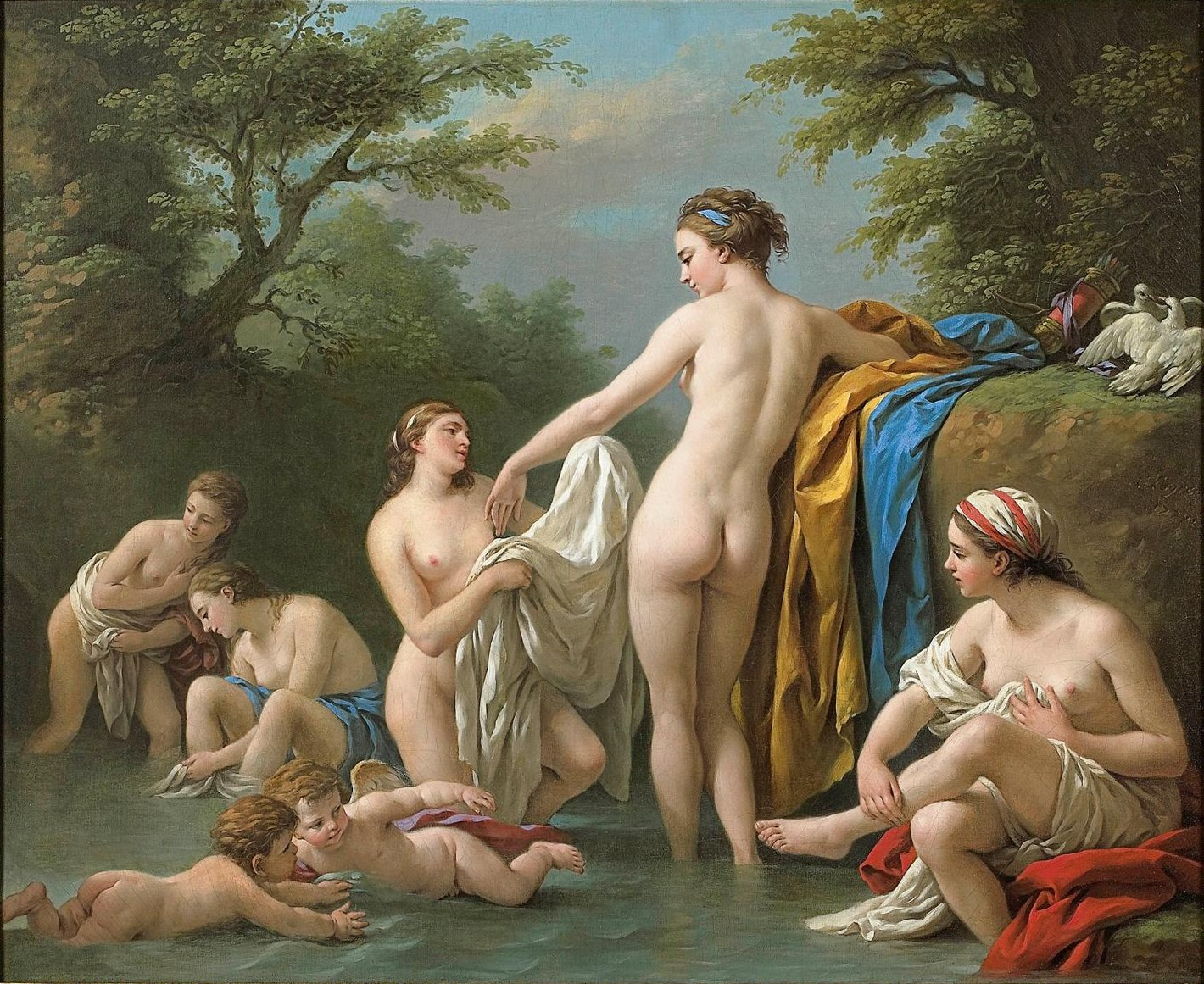 Venus and Nymphs Bathing by French artist Louis Jean-Francois Lagrenee